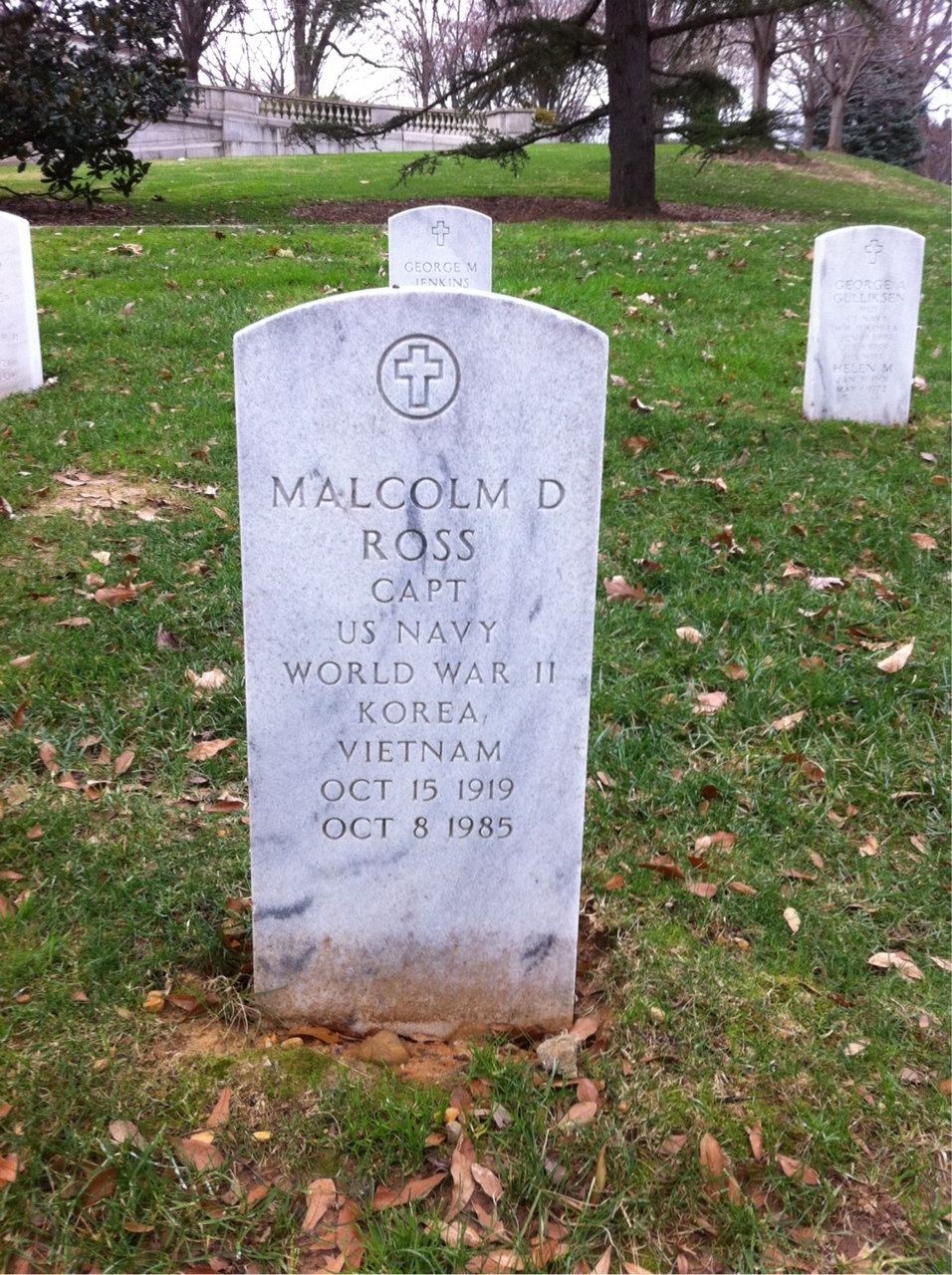 Grave of Malcolm Ross at Arlington National Cemetery